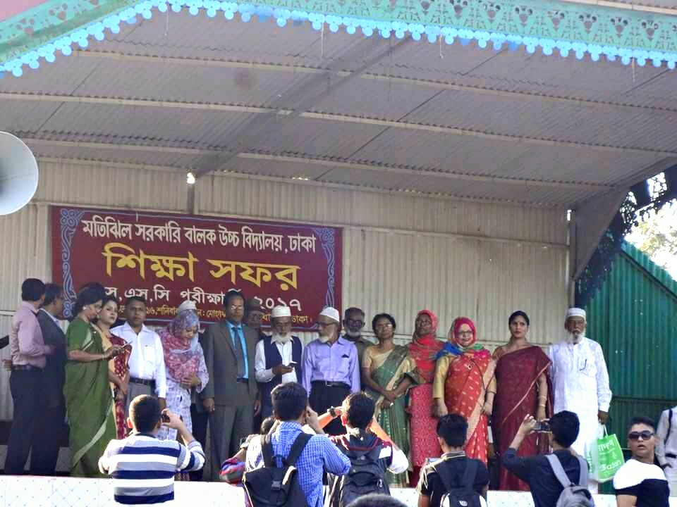 School picnic for ssc candidates